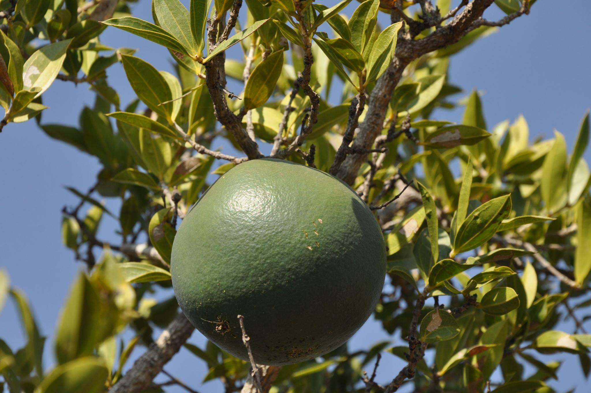 Strychnos pungens - Loskop Dam Nature Reserve near Groblersdal, South Africa